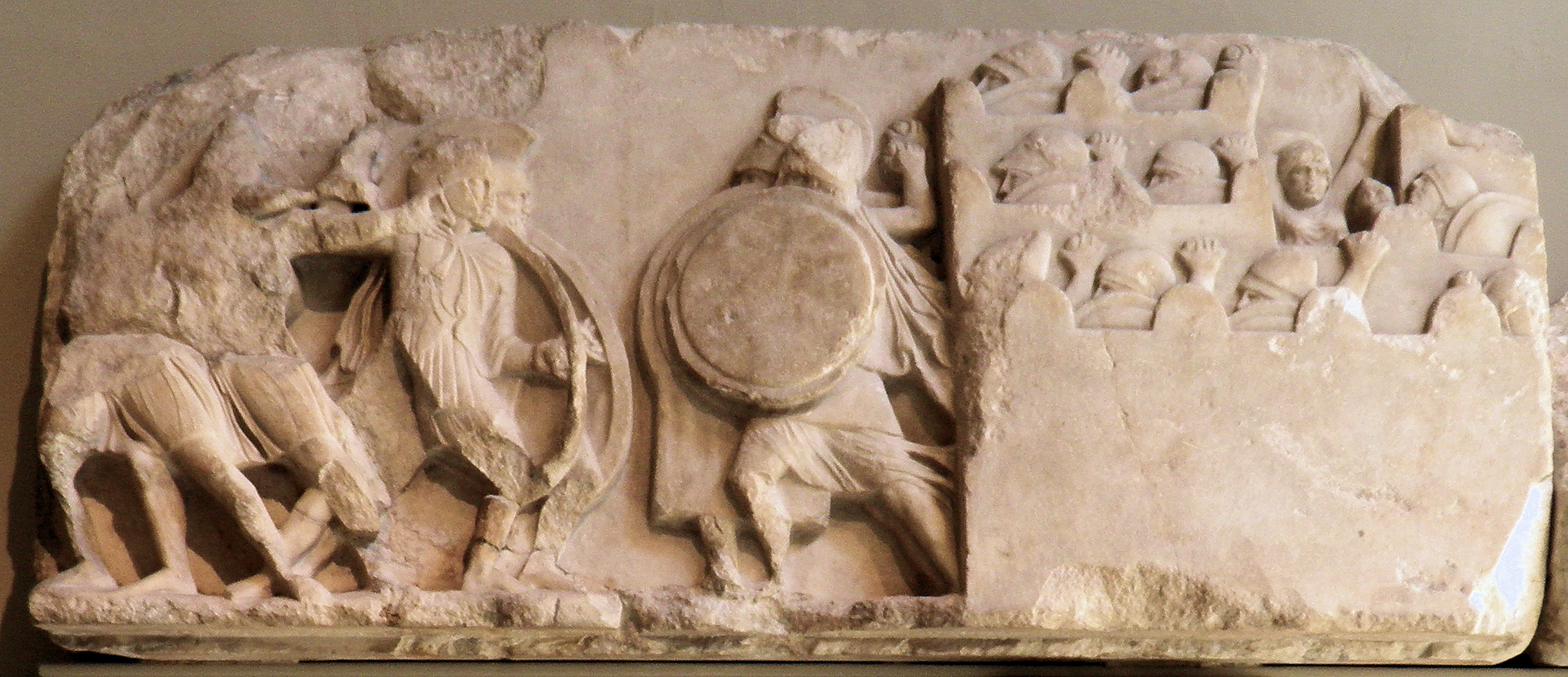 Nereid Monument Assault on a City